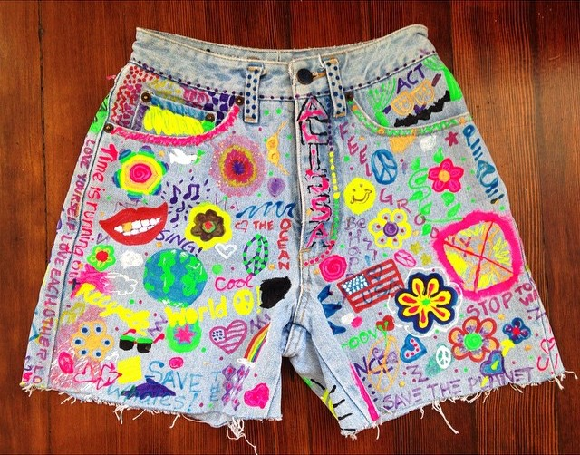 Pair of jean shorts or jorts, cut off mid-thigh, and customised with multicoloured puffy paint with various slogans, logos and images, mainly peace and environment related. American, mid-'90s, made and worn by the photographer Alissa Walker when she was in seventh grade.